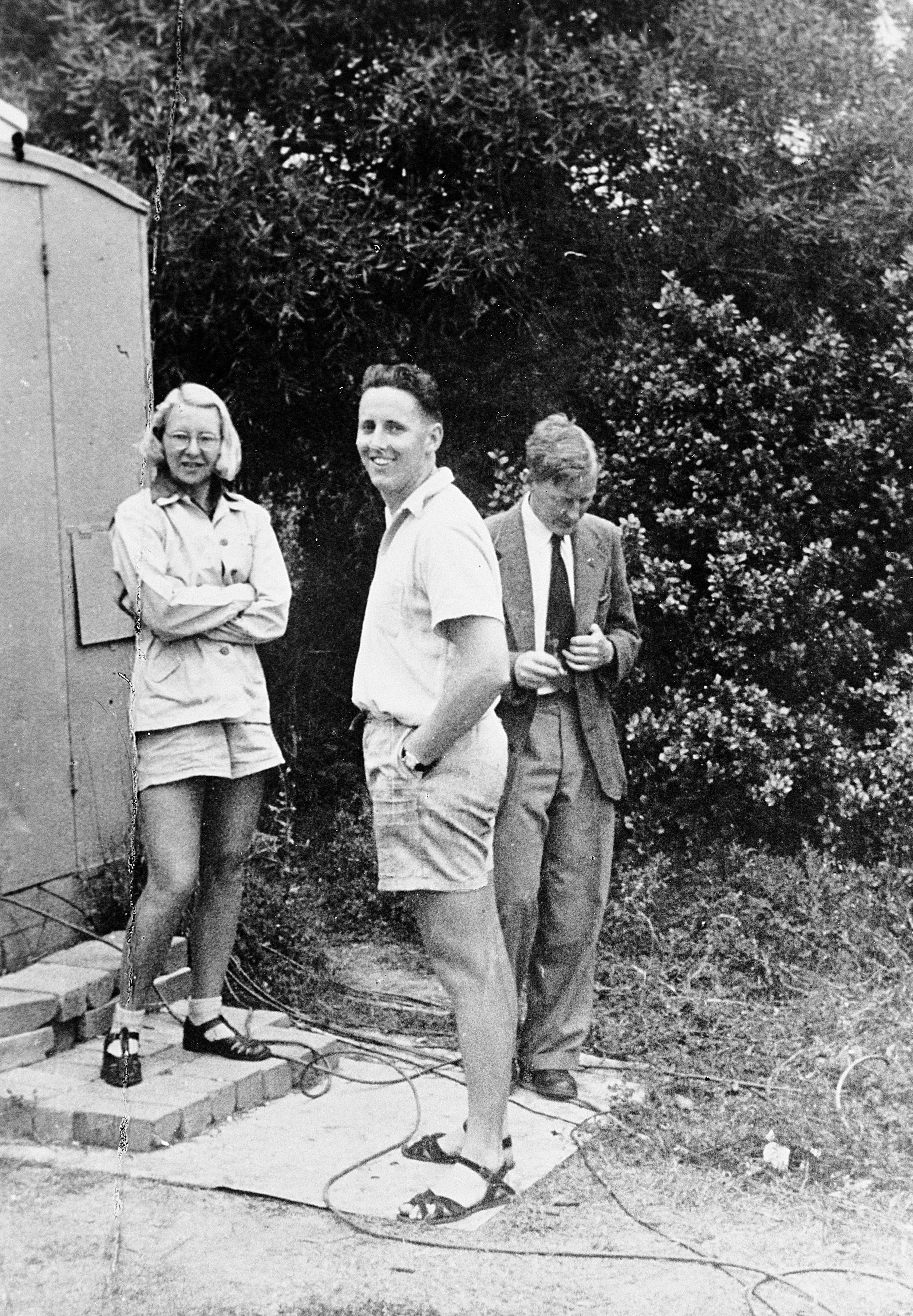 Ruby Payne-Scott, Alec Little (middle) and "Chris" Christiansen at the Potts Hill Reservoir Division of Radiophysics field station in about 1948. Payne-Scott and Little were working on observations of the Sun at 97 MHz using the newly constructed swept-lobe interferometer. ATNF Historical Photographic Archive - B14315.